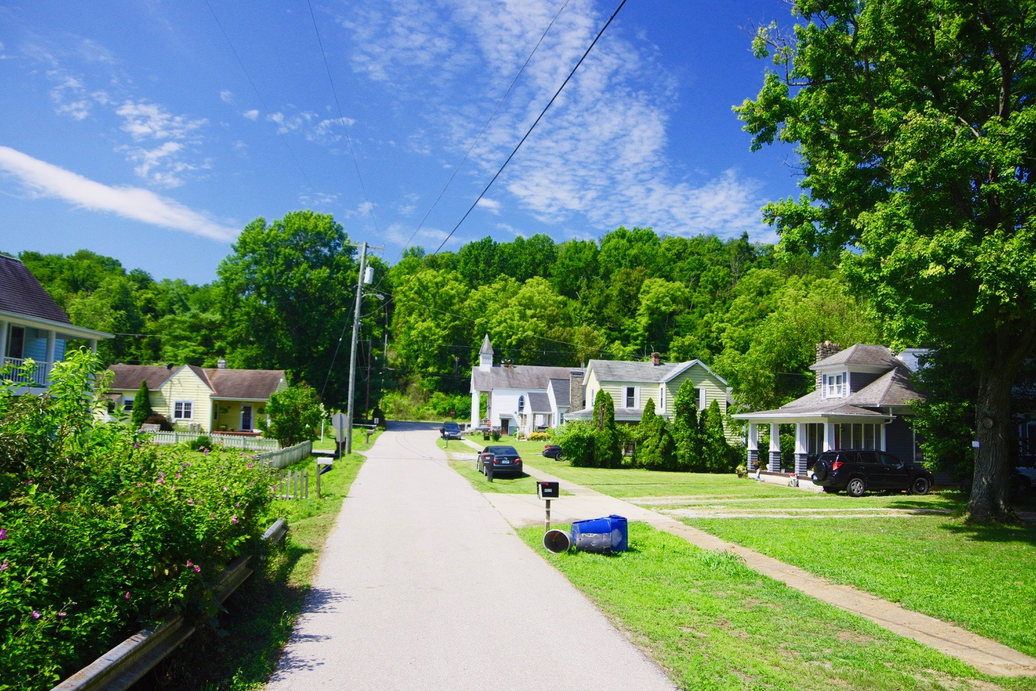 View along Main Street in Mentor, Kentucky, United States.